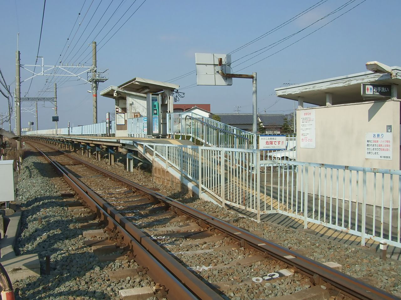 Tokumasu Station, Nishitetsu Tenjin Omuta Line.